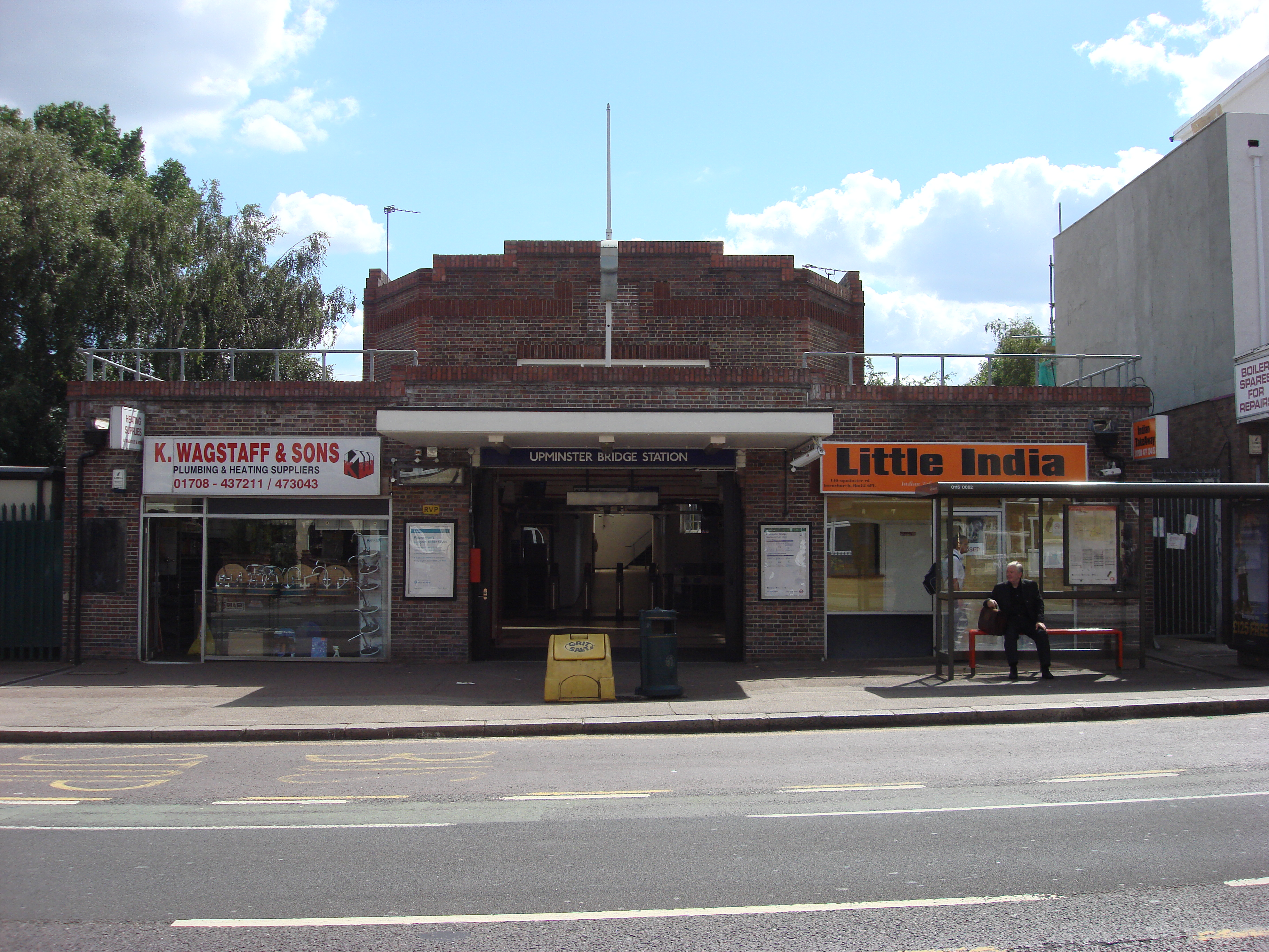 Upminster Bridge tube station, main building